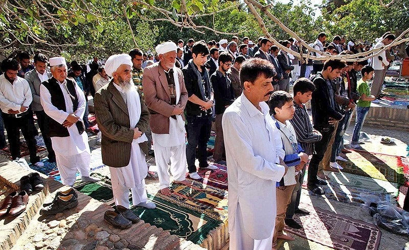 Salat Eid al-Adha 1434 AH, Torbat-e Jam - 16 October 2013 main album